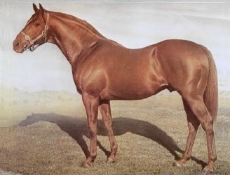 Star Kingdom at Baramul Stud in New South Wales.